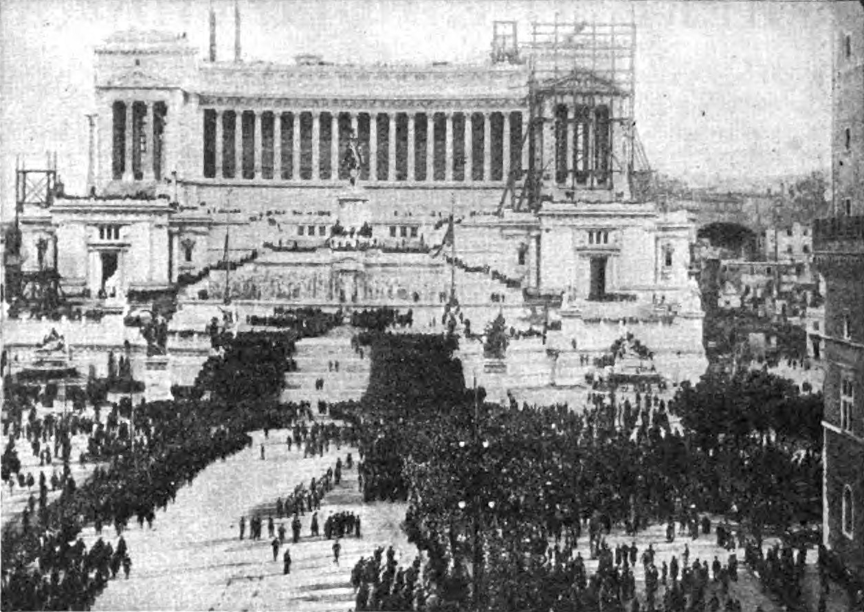 THE FASCISTI MARCHING INTO ROME—A SCENE AT THE VICTOR EMMANUEL MONUMENT AS MUSSOLINI'S FOLLOWERS TOOK POSSESSION OF THE CITY